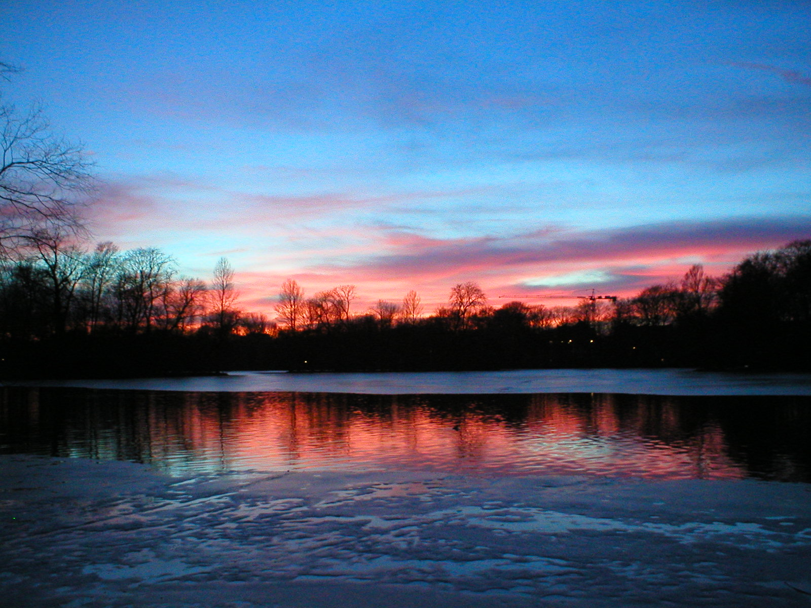 Kleinhessenloh Lake, Munich, Englischer Garten, Munich, Germany